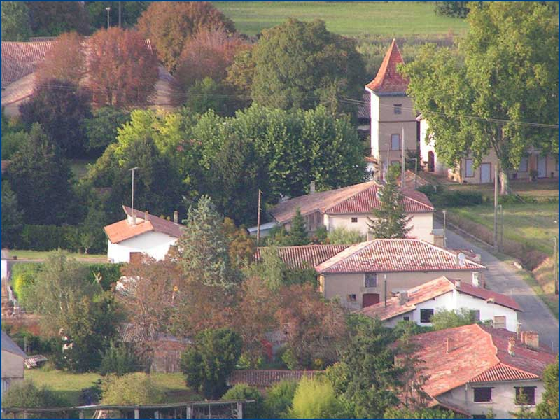 Les Estraqués